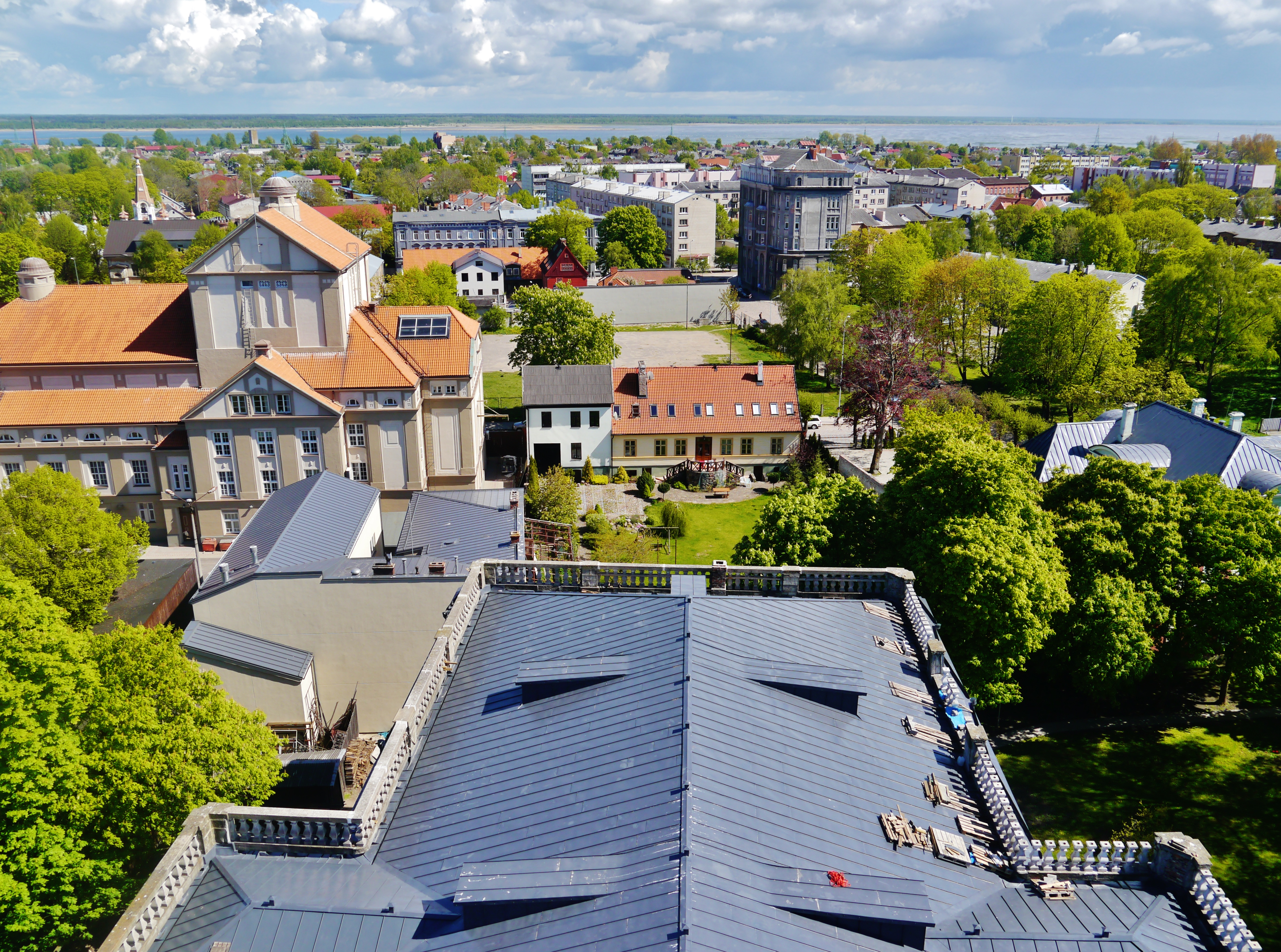 View from the Protestant Cathedral of the Holy Trinity, Liepaja, Latvia